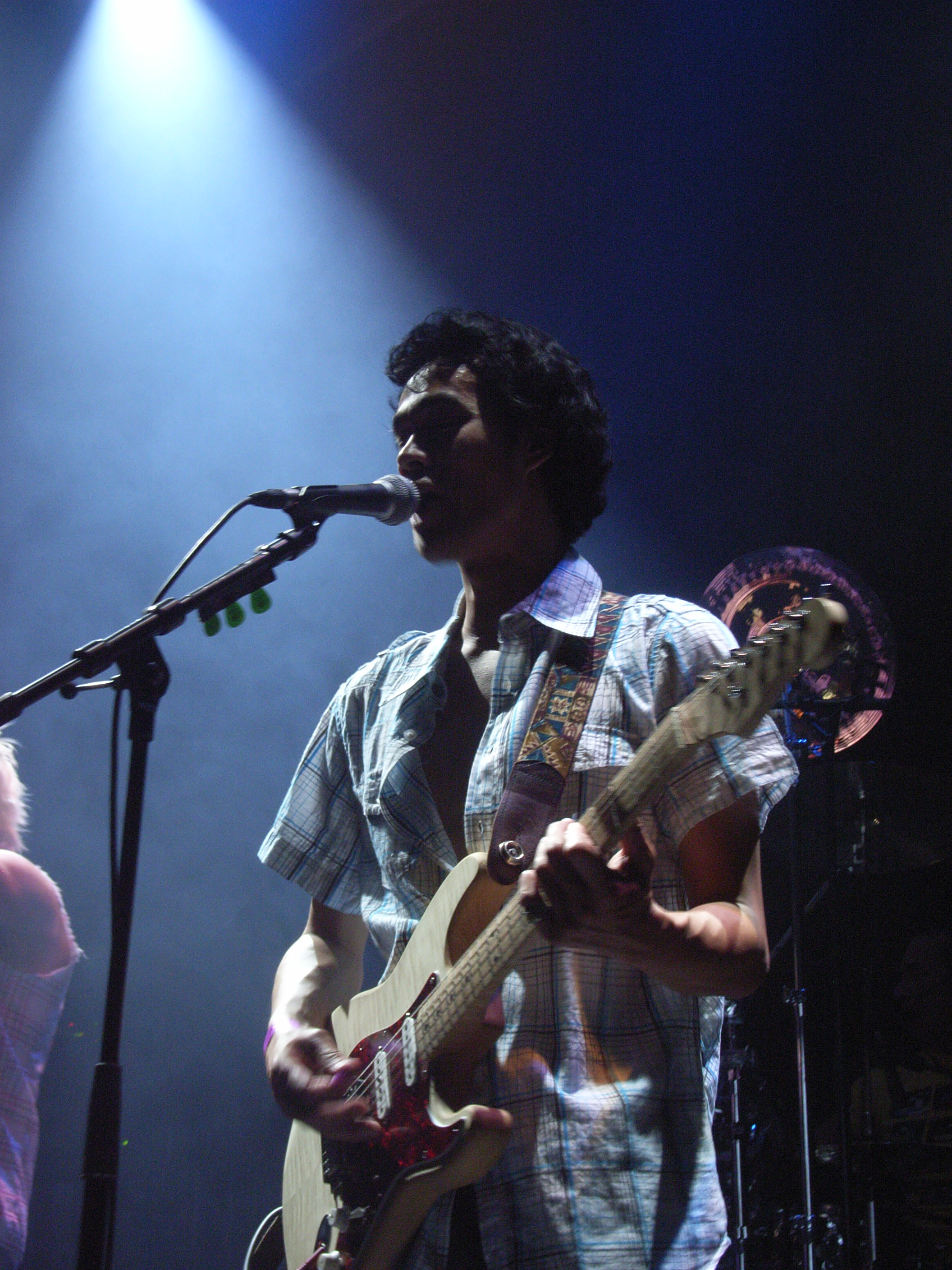 Guitarplayer Gino Rerimassie of the rockgroup Mennen in Heerlen